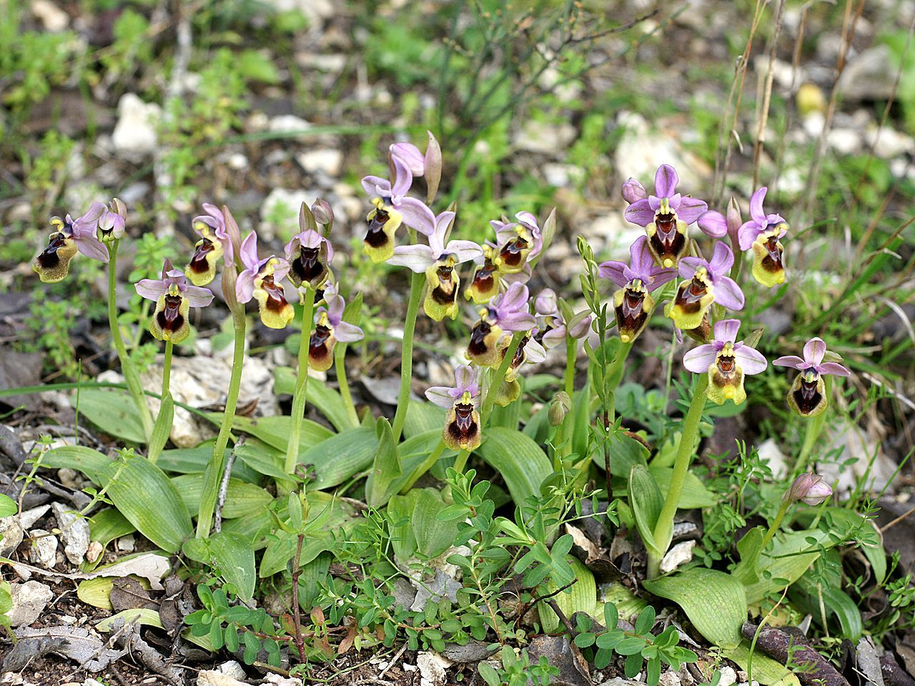 Ophrys tenthredinifera - plants